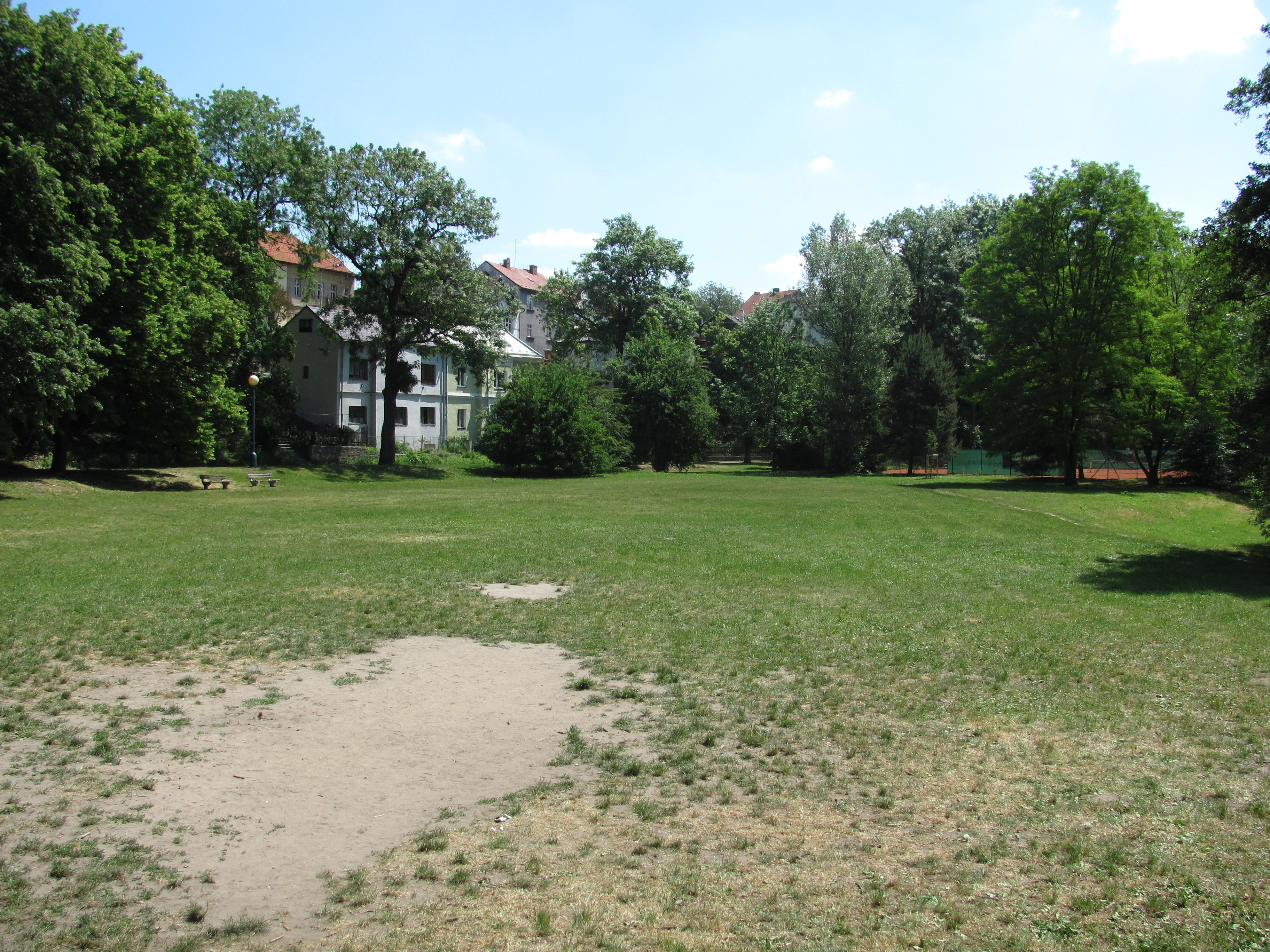 Štěpánka, Mladá Boleslav, 2O11. First ice hockey venue in Mladá Boleslav, in use until 1956